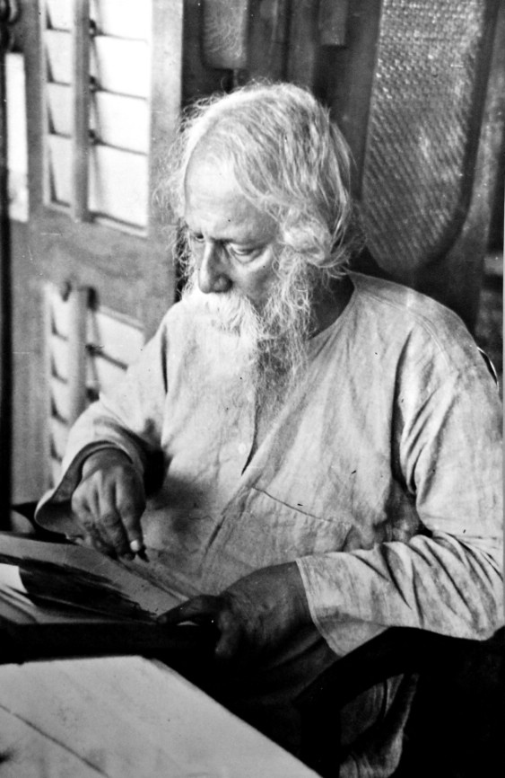 Rabindranath Tagore reading.